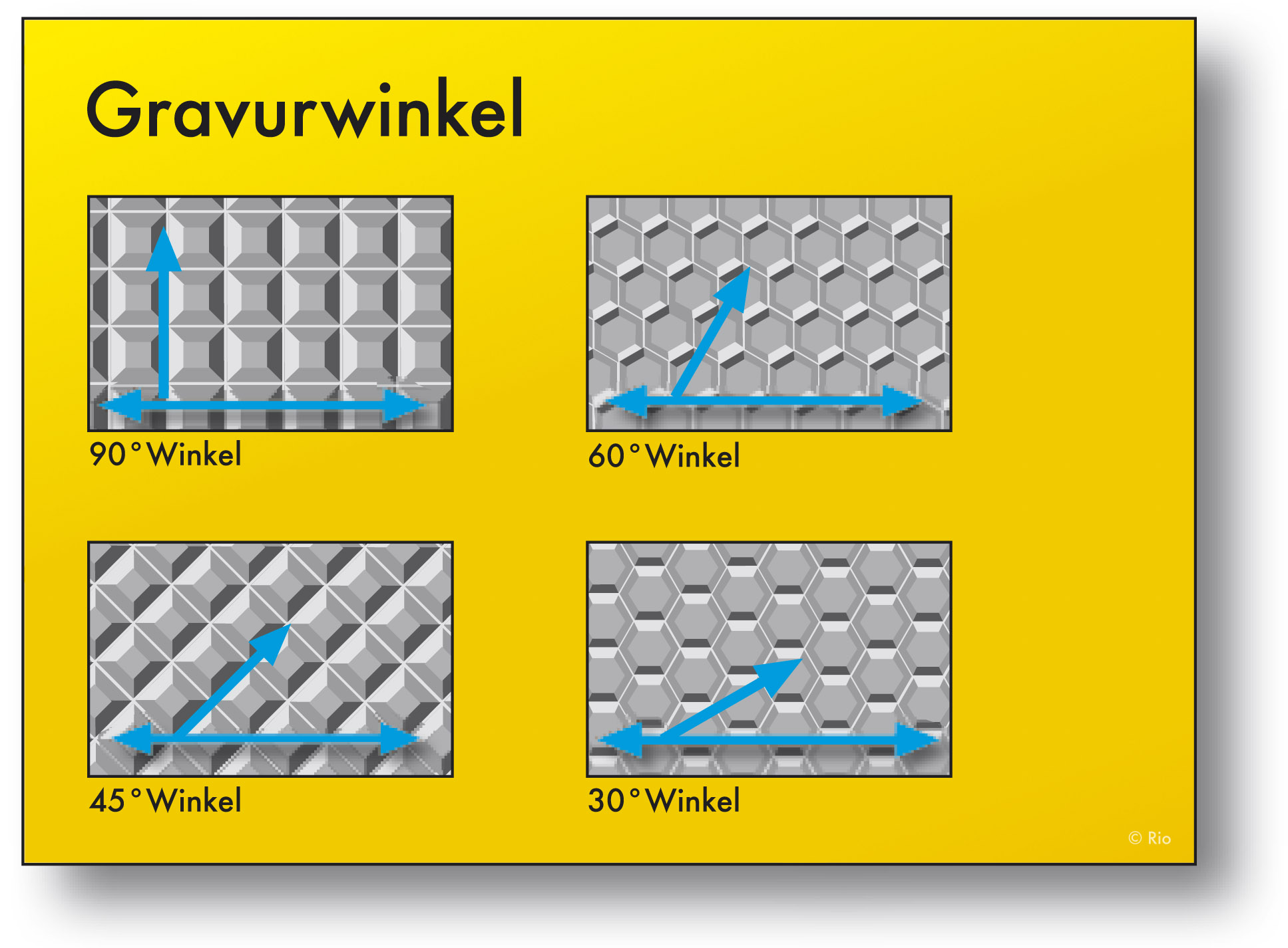 engraving angles of Anilox Roller